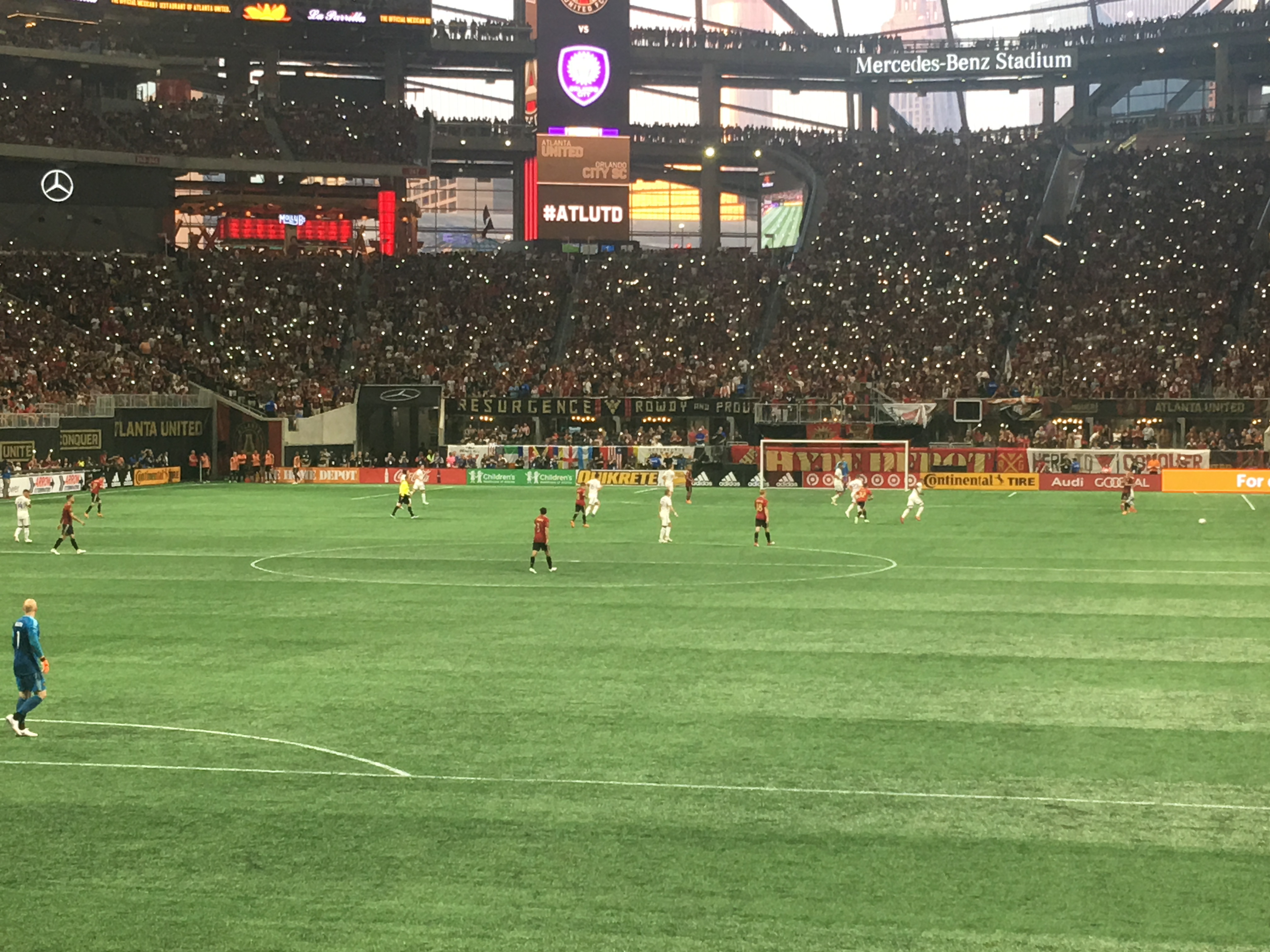 2018-06-30 - Atlanta United vs Orlando City